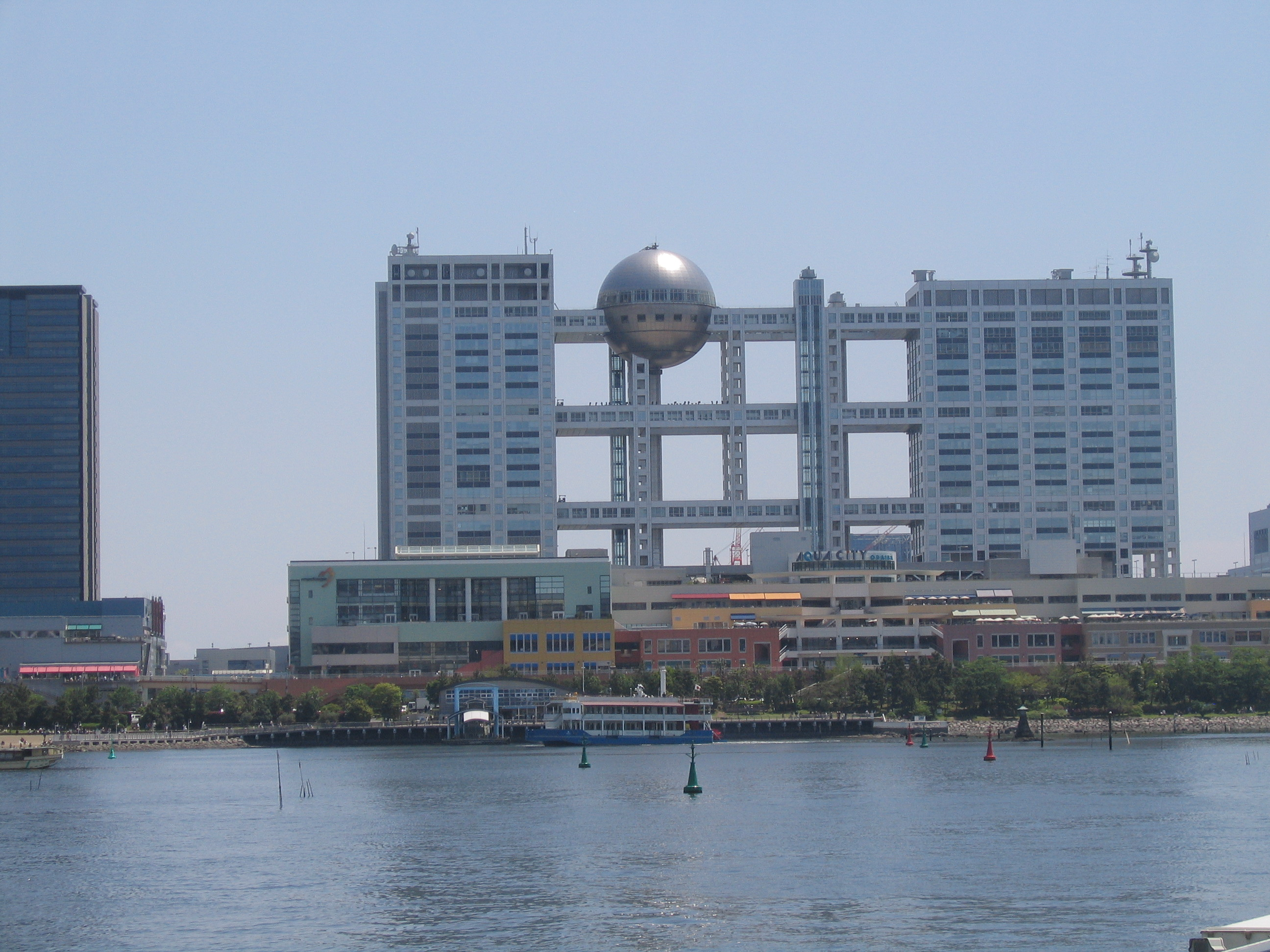 The distinctive Fuji Television headquarters. The lower-rise building in the foreground is Aqua City Odaiba, a large complex of waterfront shopping and entertainment. Taken from a boat approaching Odaiba around midday on May 3, 2006.